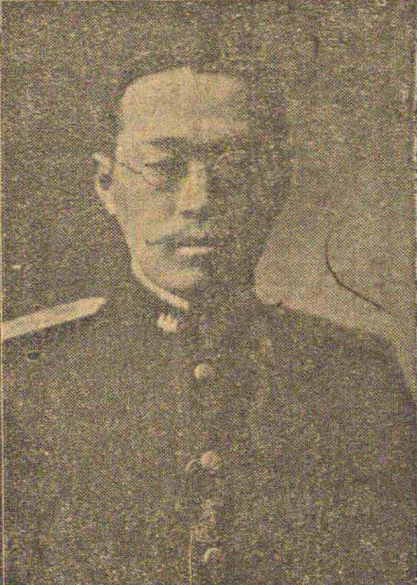 Min Won-shik, Korean Joseon dynastys and japanese ruled times politicians and activists